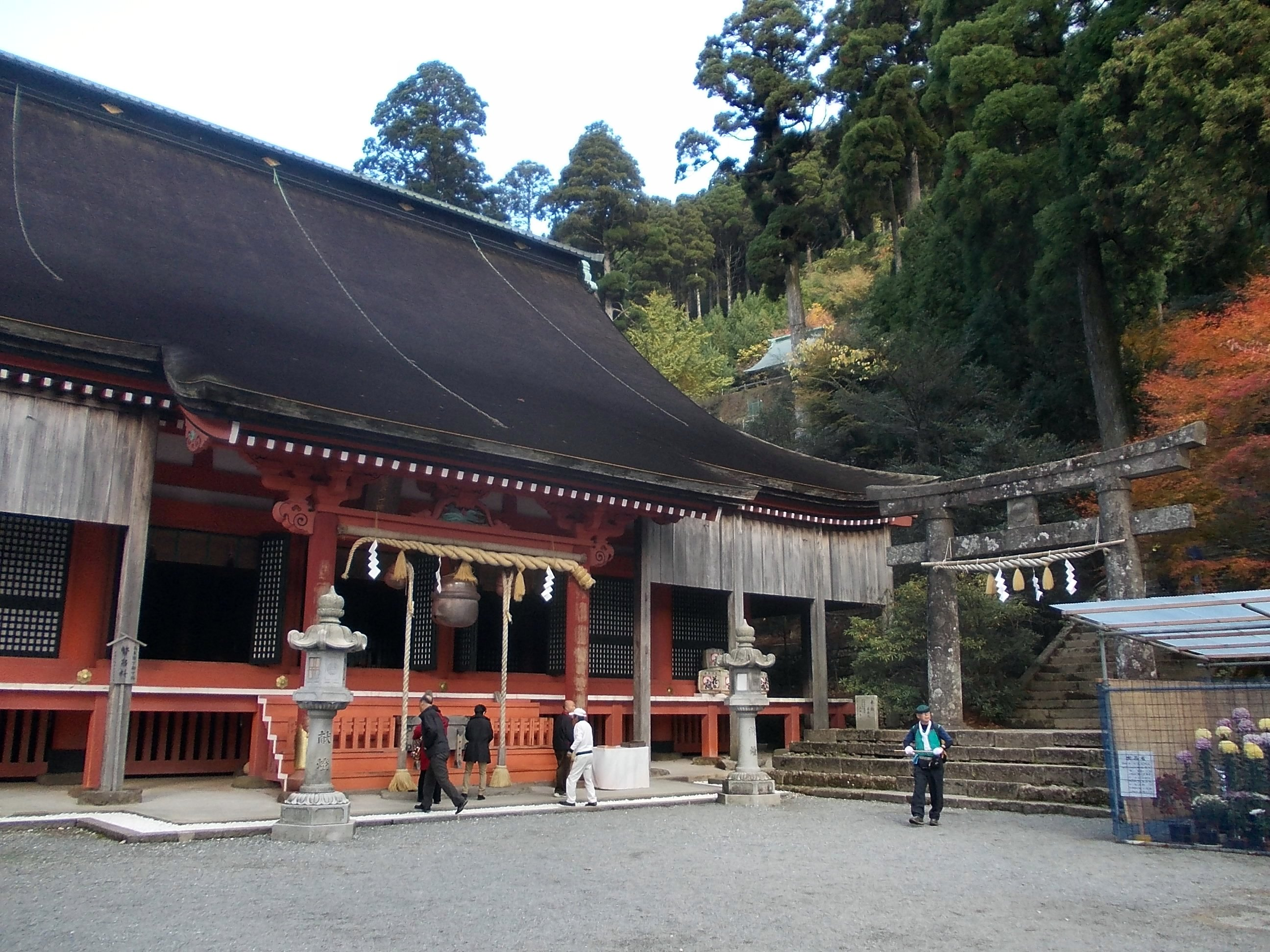 Hikosan Jingu Hoheiden, Soeda, Fukuoka, Japan. Hoheiden is a large lecture hall, and is important cultural properties designated by the government.